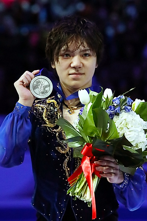 Photos – World Championships 2018 – Men (Medalists)